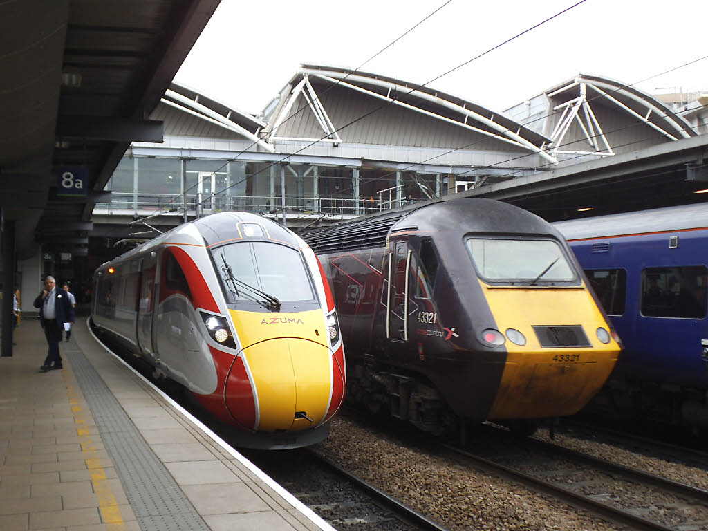 Azuma and HST at Leeds station (No 800103 Mtaylor848 (talk) 13:52, 29 June 2019 (UTC))